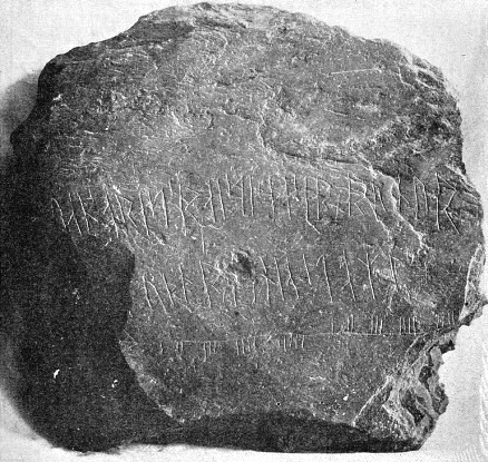 On the Maughold Stone there is a runic inscription ("Jóan the priest carved these runes. Fuþorkhniastbml") inscribed in short twig runes (Swedish-Norwegian rune variant). Below this inscription are carved the first ten Ogham letters. Exact descriptions of the Maughold Stone